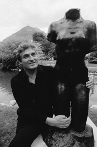 Leonardo Gianadda